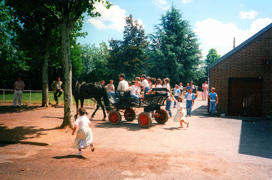 Right before the summer holidays, the Saint-Michel infrastructures host the École Saint-Joseph Solesmes' pupils for their end-of-the-year show and has done so for over twenty-five years as of 2018.